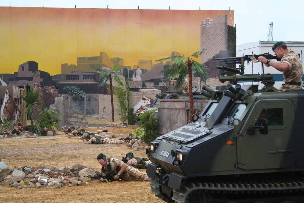 Photo taken by me of a Royal Marines demo at Portsmouth International Festival of the Sea in 2005